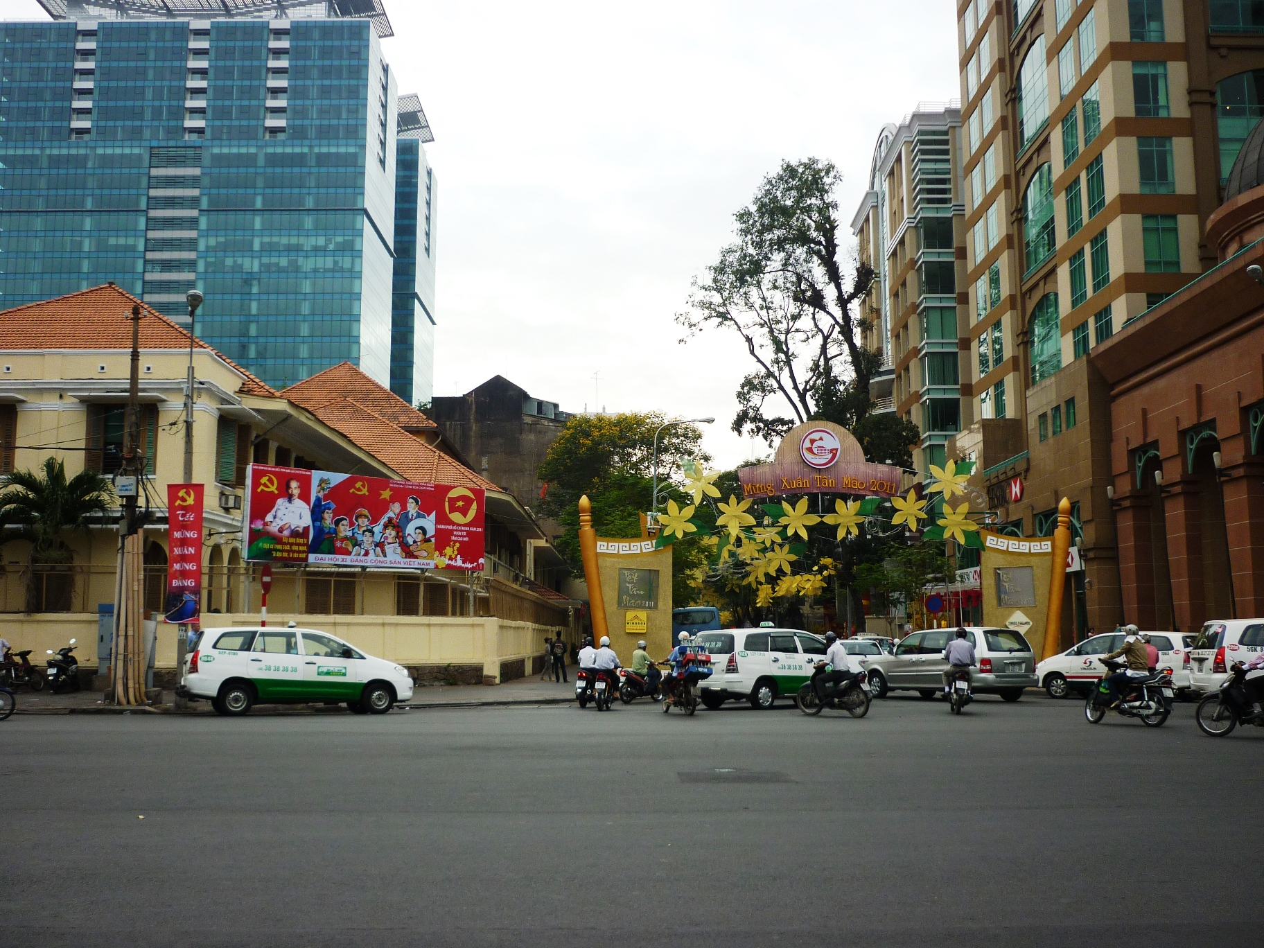 Dong Khoi - Nguyen Du crossroad